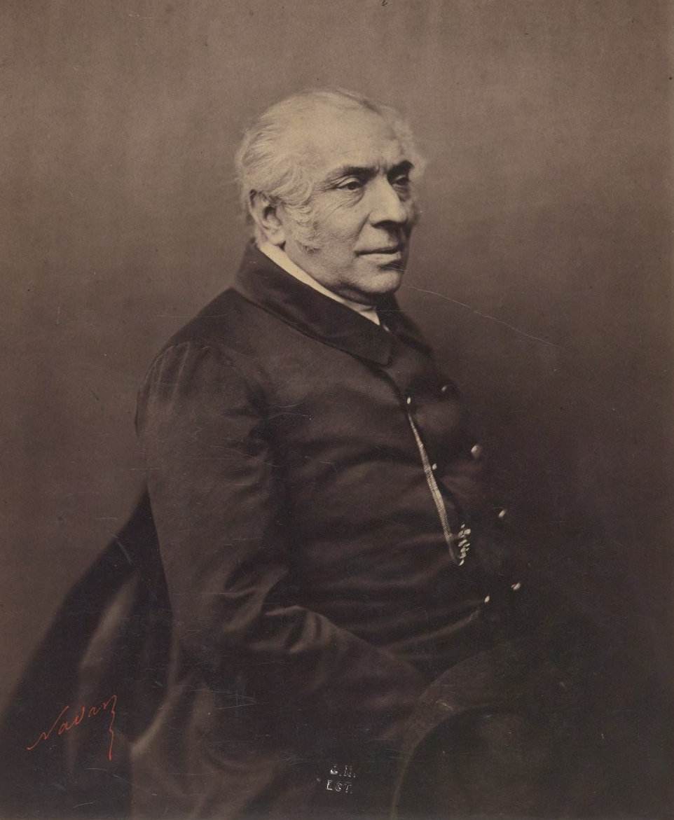 Depicted person: Antoine Pierre Berryer – French politician and lawyer